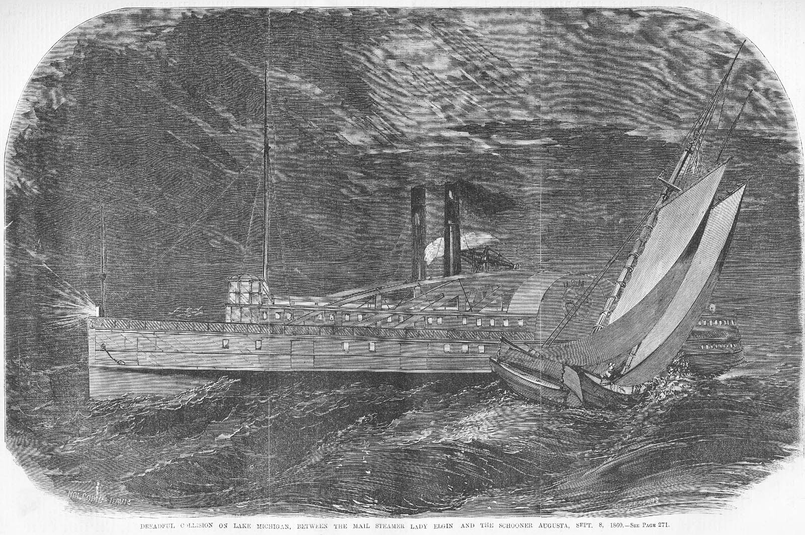 Wreck of the Lady Elgin Steamer.